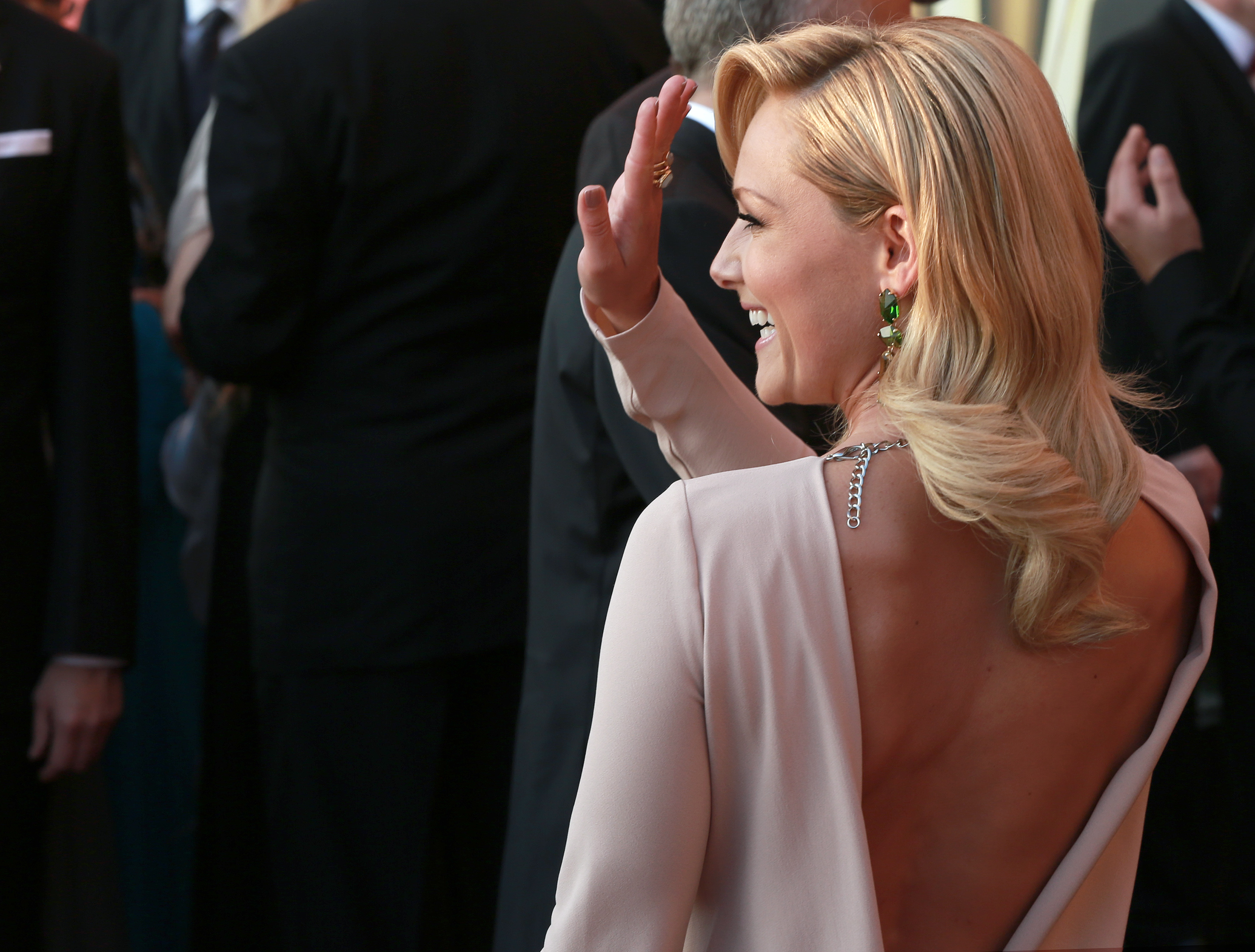 Helene Fischer at the Romy film awards 2014 (Hofburg Imperial Palace in Vienna)